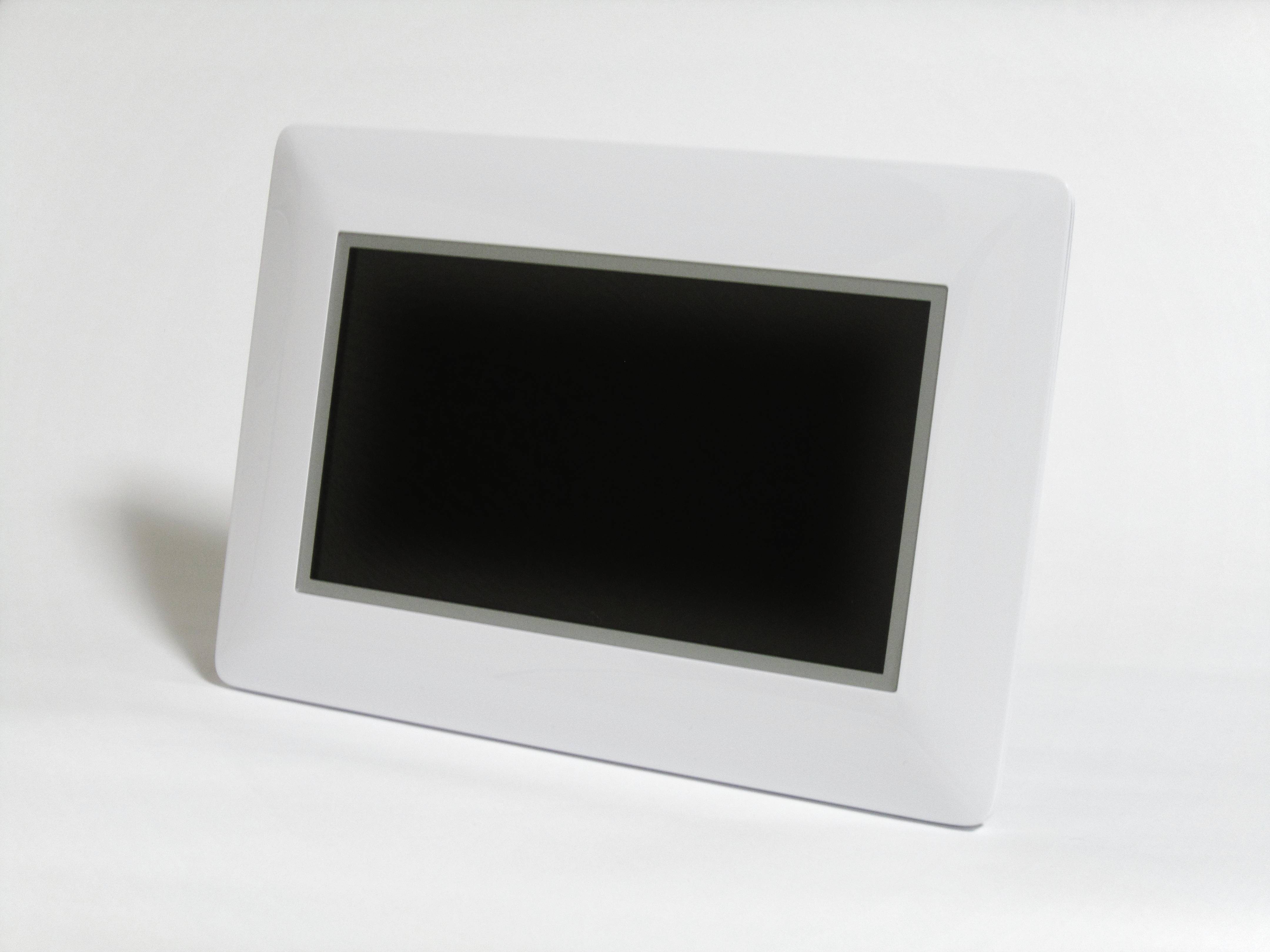 SoftBank Mobile Digital photo frame PhotoVision HW001S (made by Huawei).